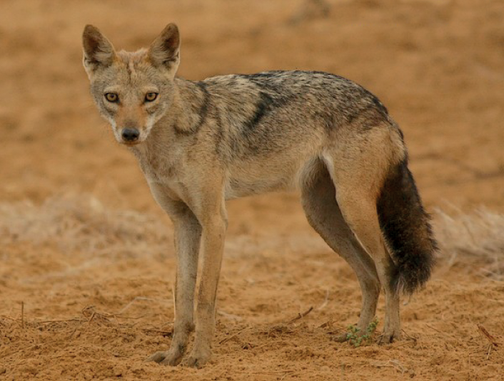 A Senegalese golden wolf near Kheune, Senegal.